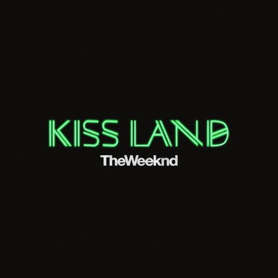 The Weeknd